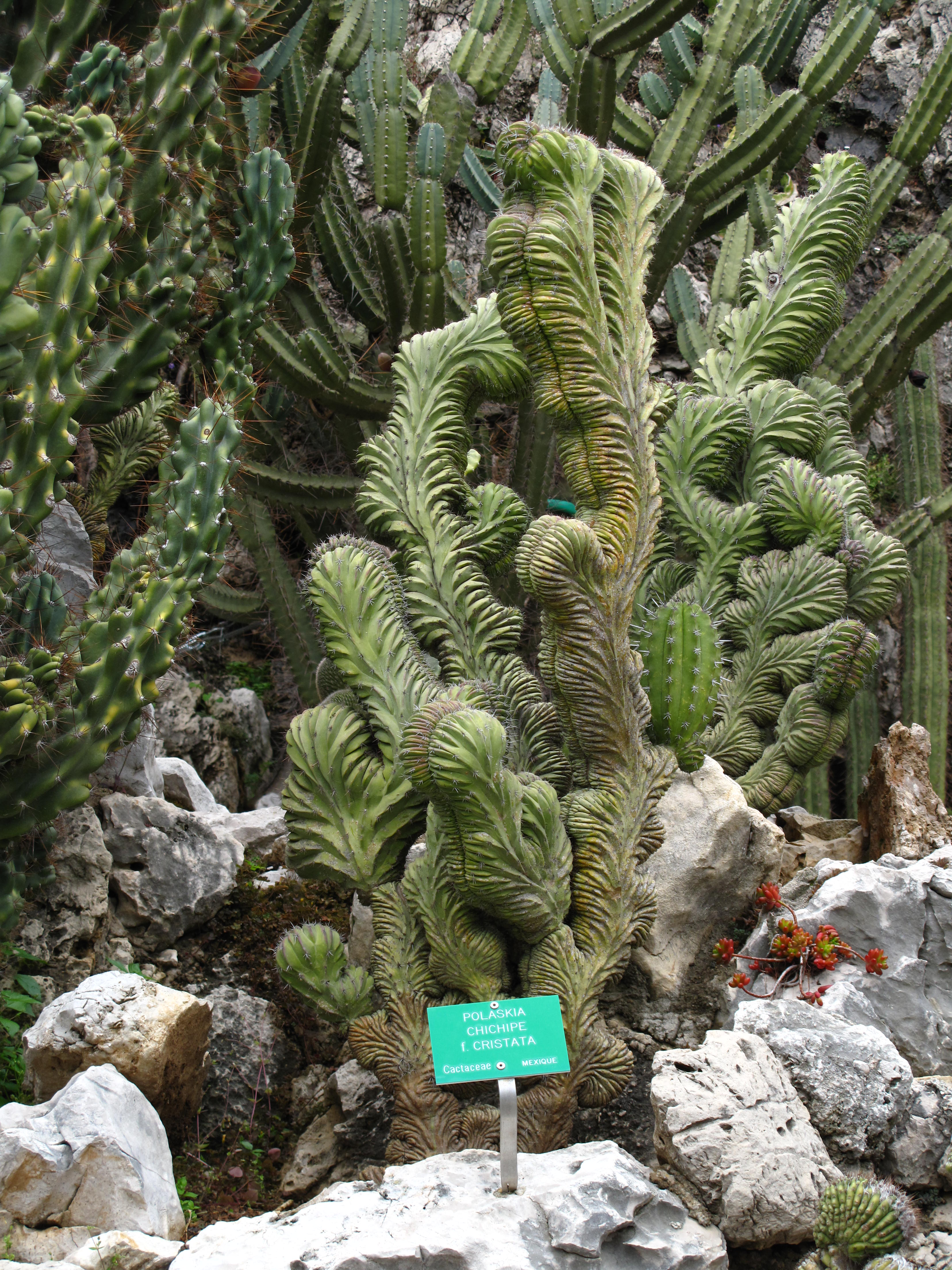 Polaskia chichipe cristata in the exotic garden of Monaco